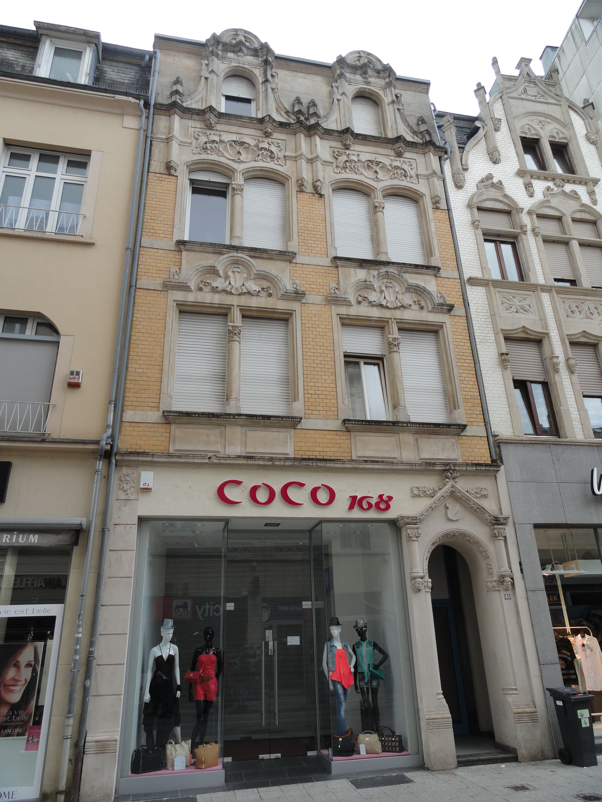 65 rue d'Alzette -Esch-sur-Alzette - Grand Duché du Luxembourg - Styl Gothico-baroque